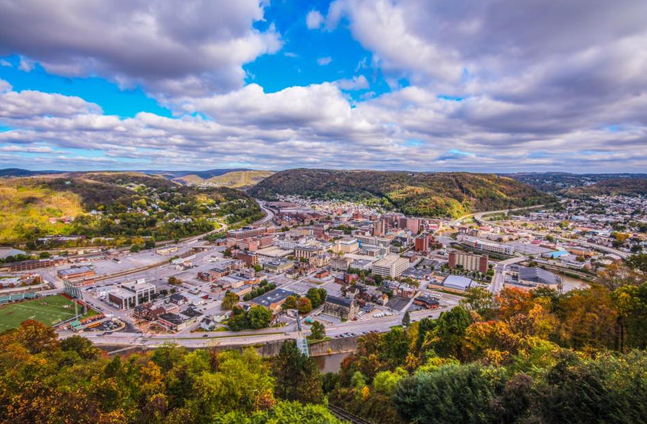 Johnstown Inclined Plane Picture